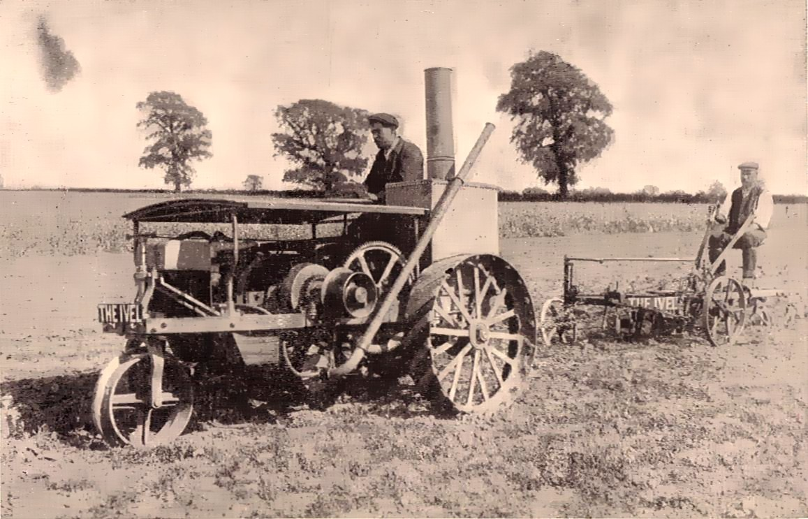 Fig. 265 Ivel Portable Traction Motor ploughing Scans from 'The Book of the Motor Car', Rankin Kennedy C.E., 1912 See other images from this source in Scans from 'The Book of the Motor Car'